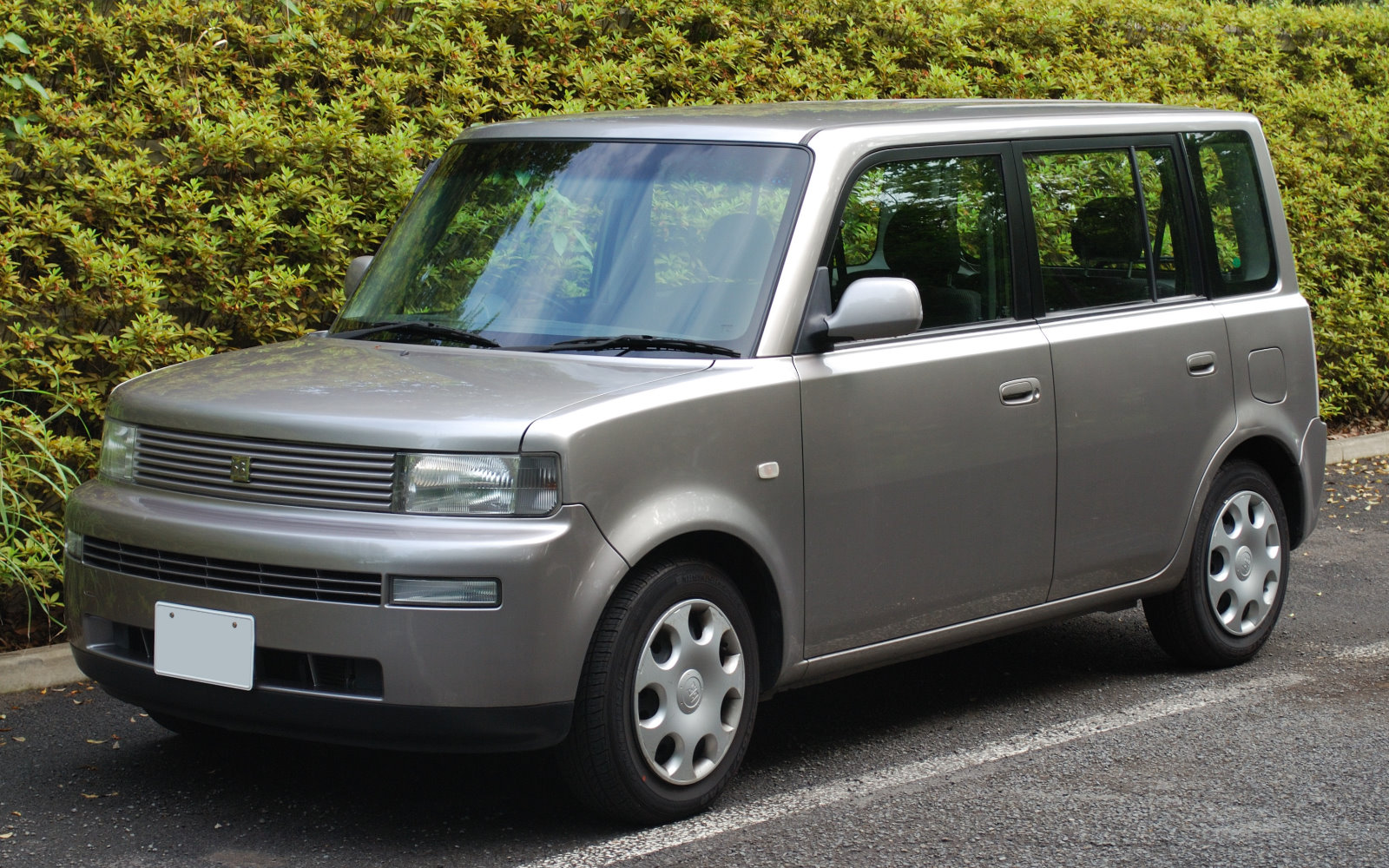 1st generation Toyota bB (2000/2 - 2003/4)